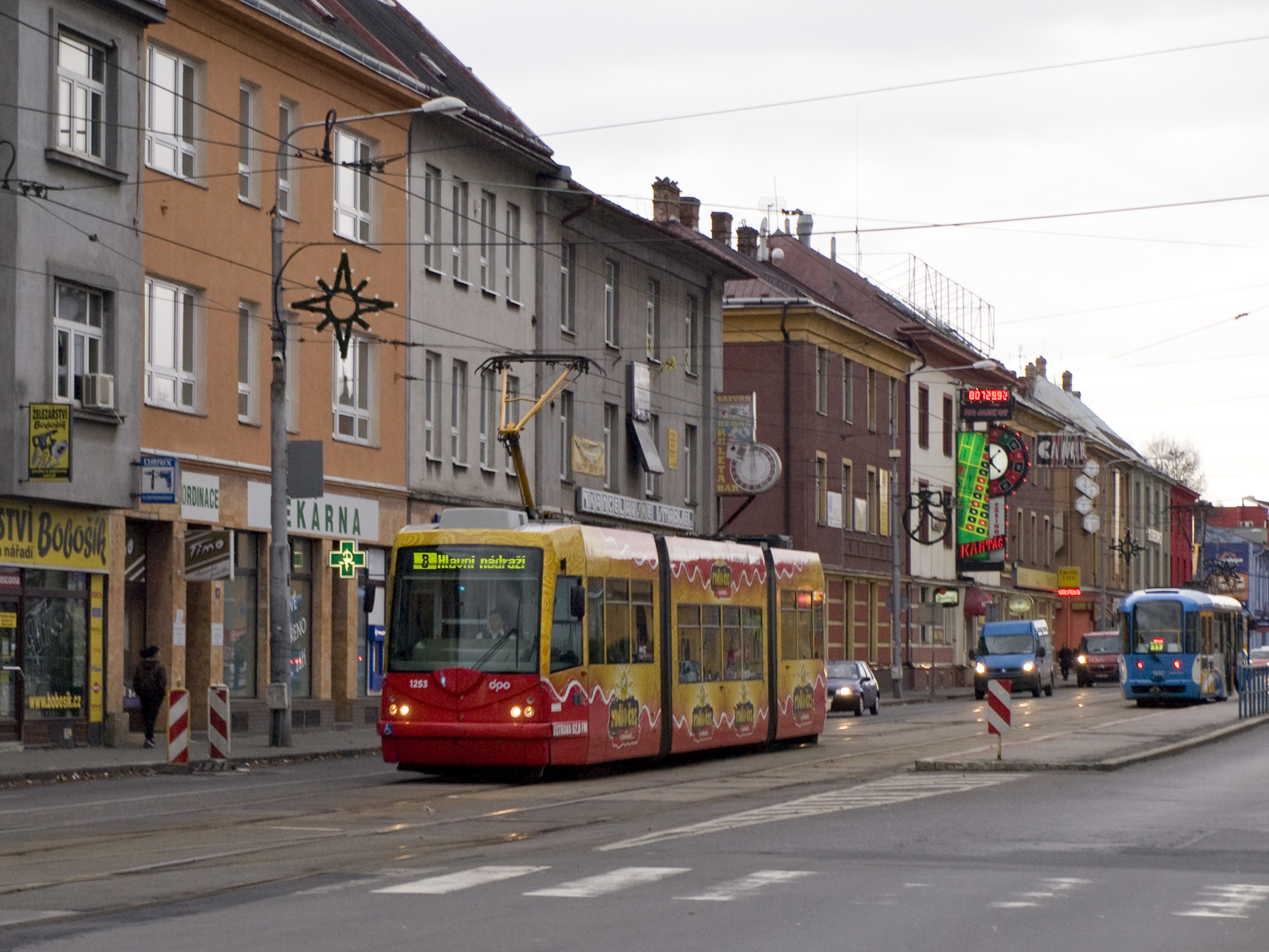 Inekon 01 Trio, Mariánské náměstí, Ostrava